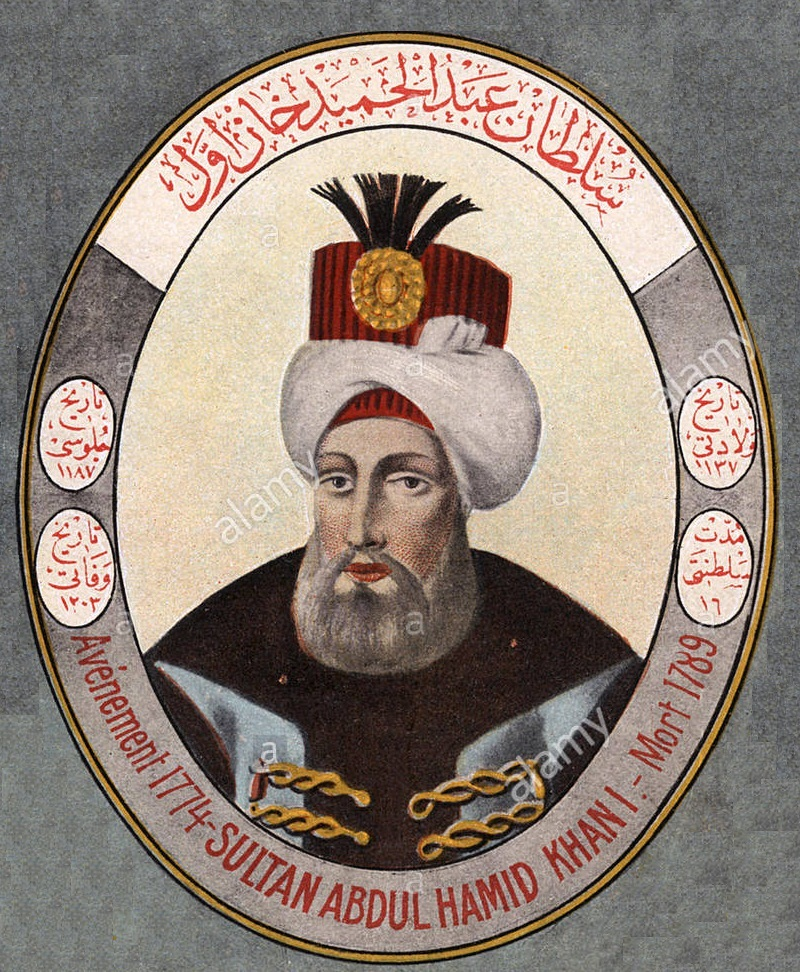 BASA-516K-1-2080-34-Abdul Hamid I_ Sahand Ace